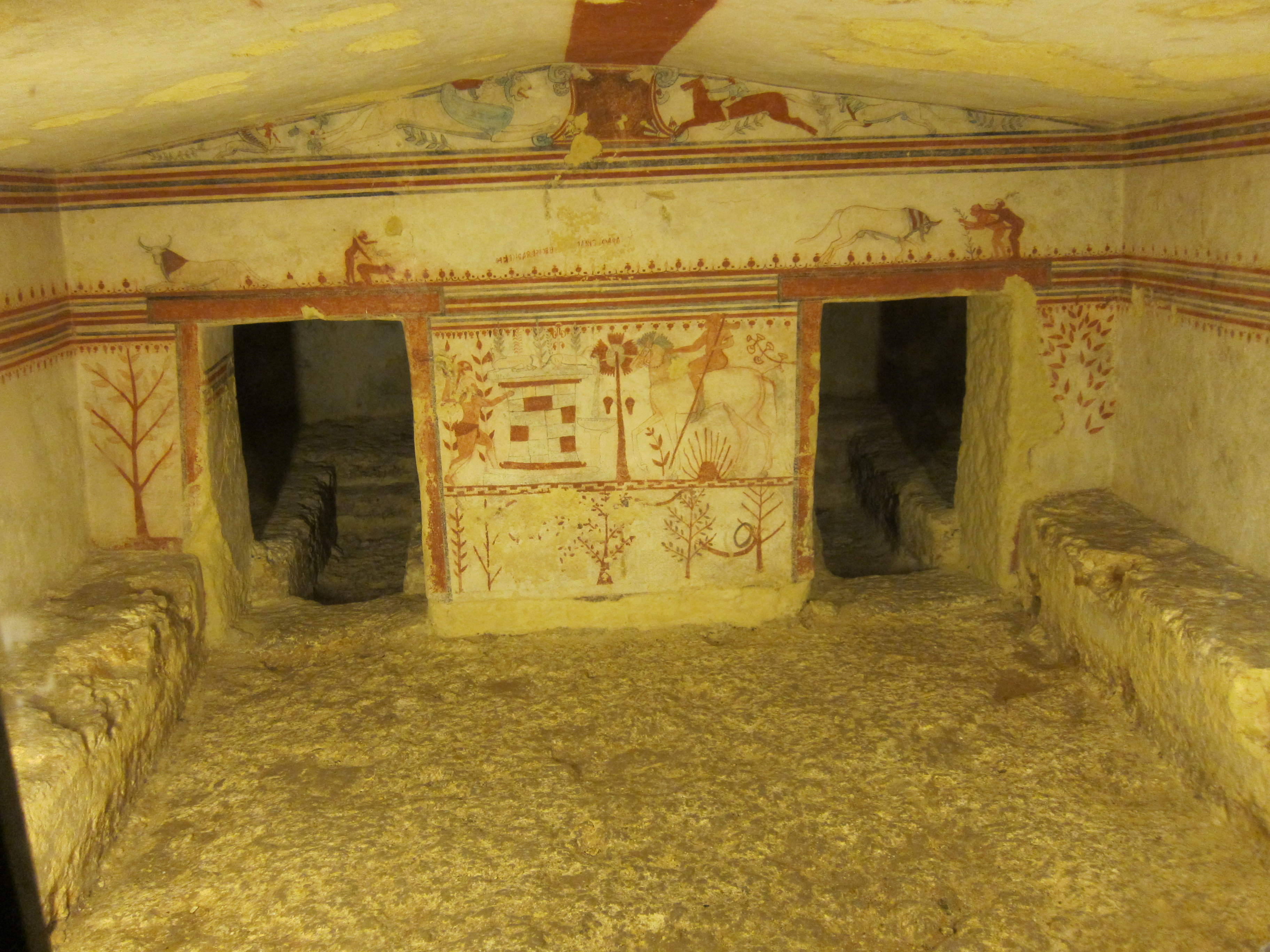 The main chamber of the Tomb of the Bulls as seen from the entrance. The back wall of the main chamber is the only wall with frescoes below the gable. In the gable is a fresco of a Chimaera and a rider. Below it are the bulls who gave the tomb its name, in two erotic scenes. Between the two doorways is the fresco of Achilles ambushing Troilus.